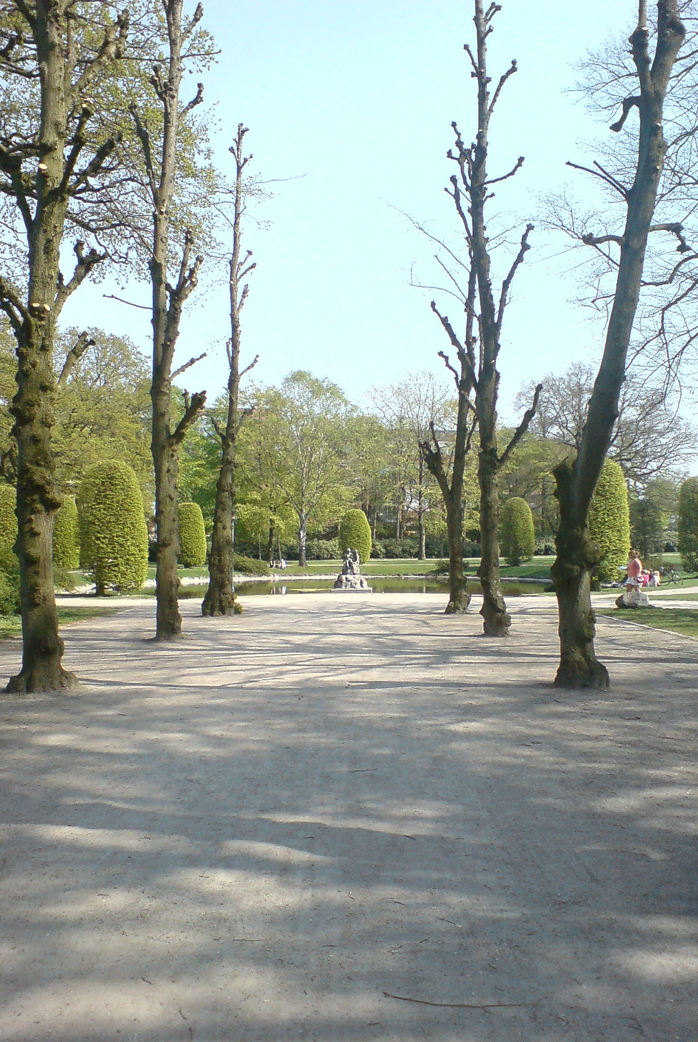 The tilia avenue in Kildeparken at spring with the fountain at the end.